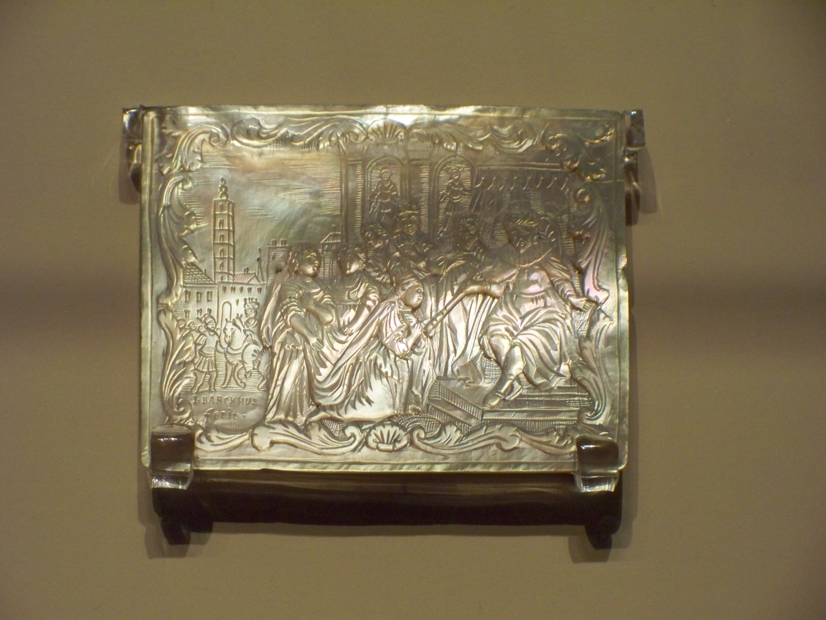 Category - Mother of Pearl Lid of a snuff box Esther before Ahasuerus Barckhuysen, J.B. Southern Netherlands 1700-1725 Mother of pearl Lid of a snuff box in mother of pearl. Ahasuerus extends his sceptre to the kneeling Esther. Courtiers surround them. On the left an engraved view of a town with a tower and 'I. BARCKHUS fecit'. On the reverse, engraved, a similar coronation scene. Wikipedia Loves Art at the Victoria and Albert Museum This photo of item # A35-1928 at the Victoria and Albert Museum was contributed under the team name "Opal_Art_Seekers_4" as part of the Wikipedia Loves Art project in February 2009. Victoria and Albert Museum The original photograph on Flickr was taken by Forever Wiser—please add a comment to the original Flickr page whenever a use has been made on Wikipedia or another project. Project galleries on Flickr: this institution, this team